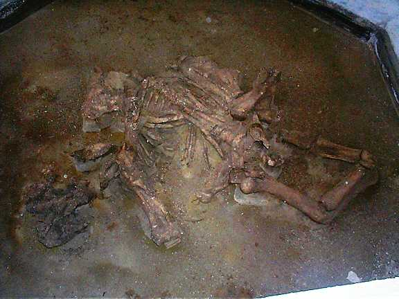 mammoth skeleton, image from the Anthropological Museum, Perdikkas, West Macedonia, Greece